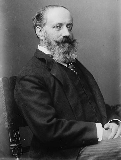 Hugo Prince von Radolin (1841-1917), diplomat, German Ambassador in Constantinople, St Petersburg and Paris